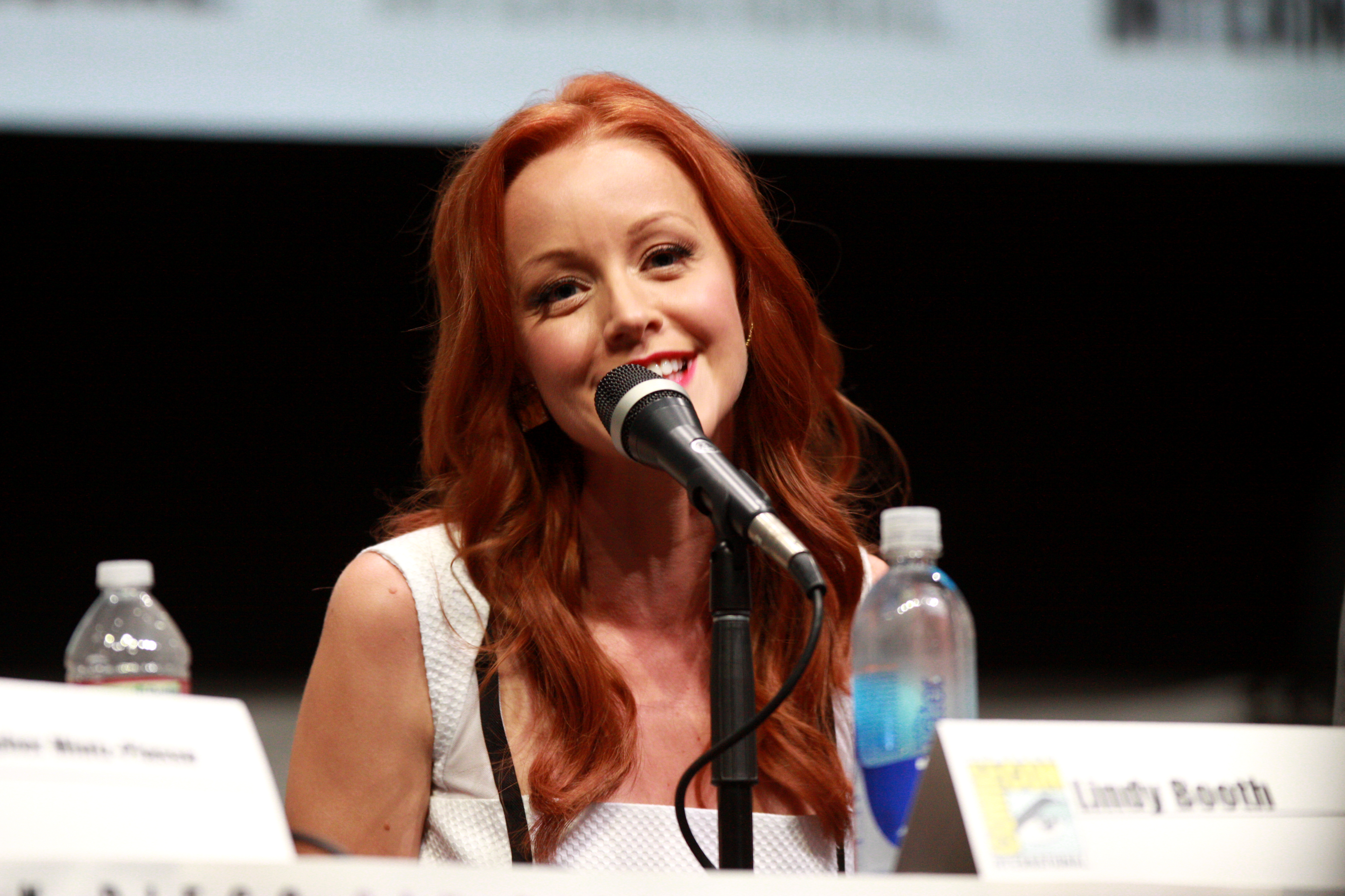 Lindy Booth speaking at the 2013 San Diego Comic Con International, for "Kick-Ass 2", at the San Diego Convention Center in San Diego, California.